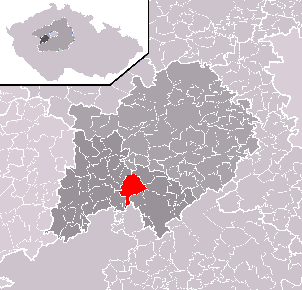 Location of Lochovice municipality within Beroun District and administrative area of Hořovice as a Municipality with Extended Competence.